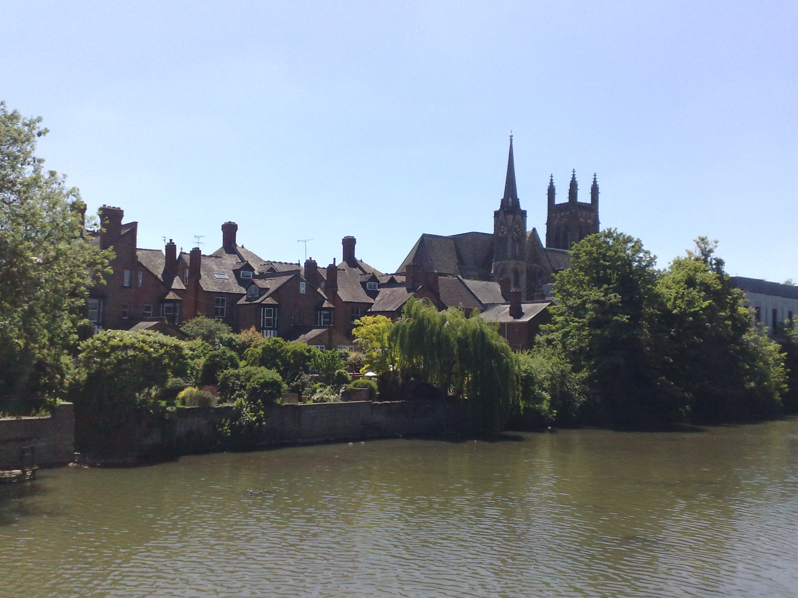 River Leam in Leamington Spa.